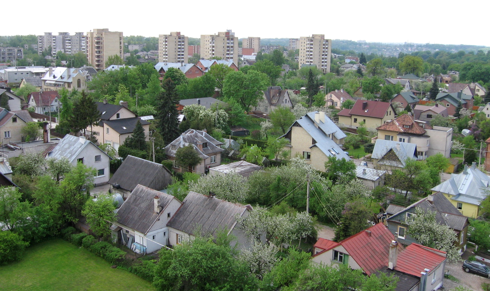 View to the Aukštieji Šančiai, district of Kaunas City, Lithuania